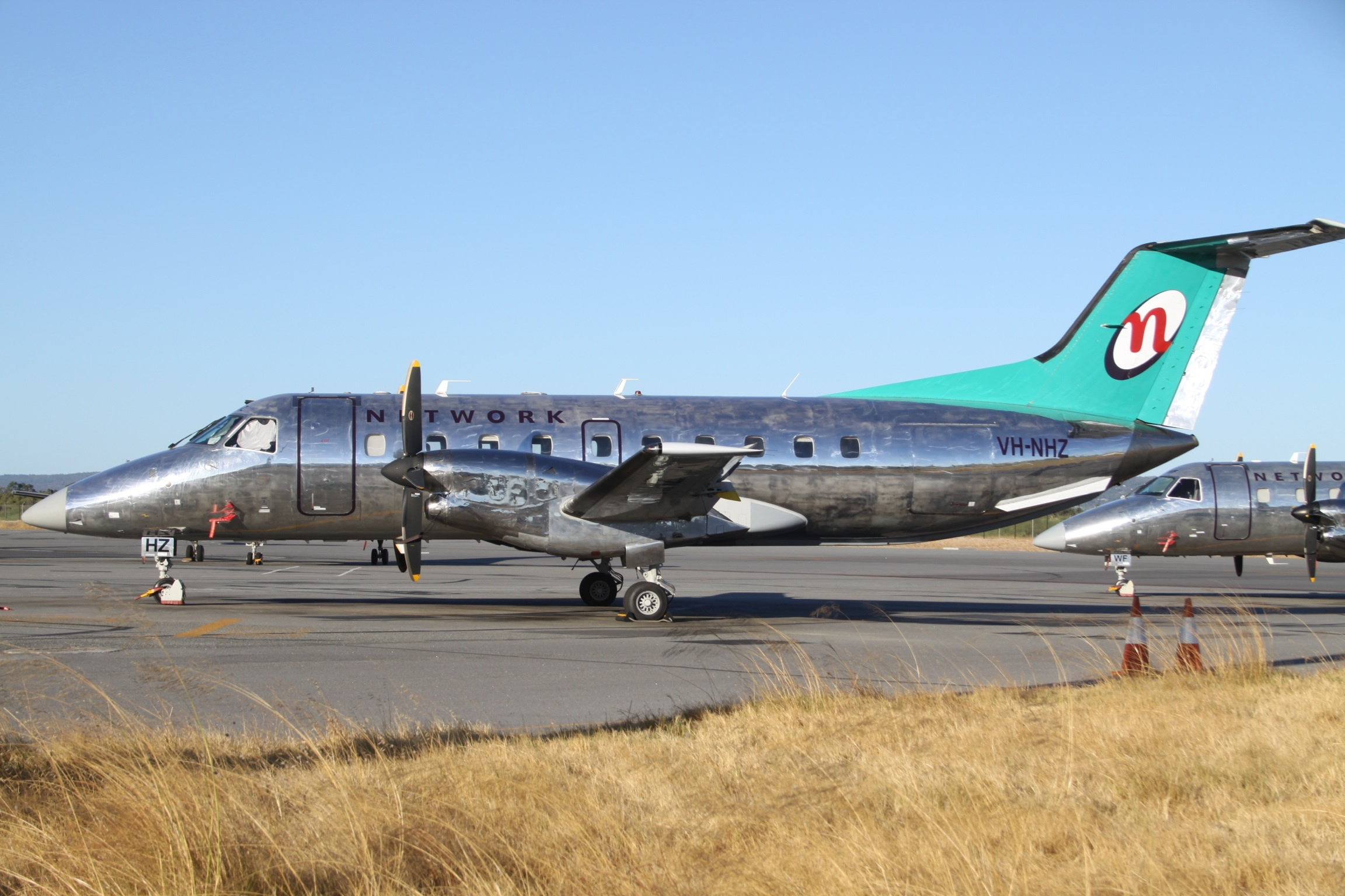 At Perth